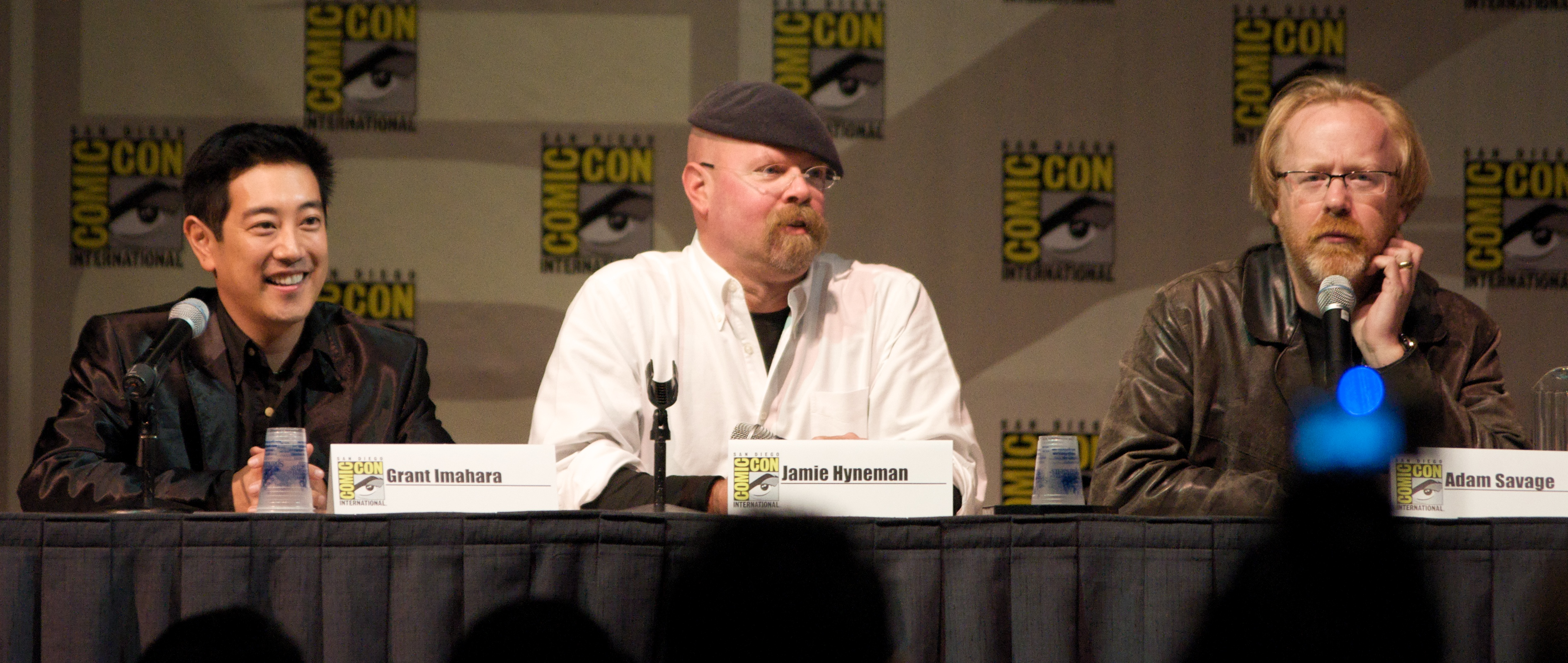 Mythbusters San Diego ComicCon 2009